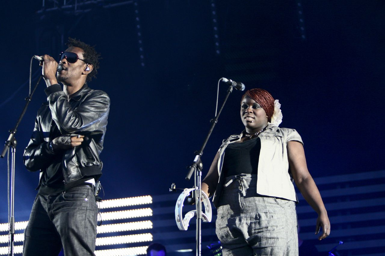 Massive Attack at the Eurockéennes 2008